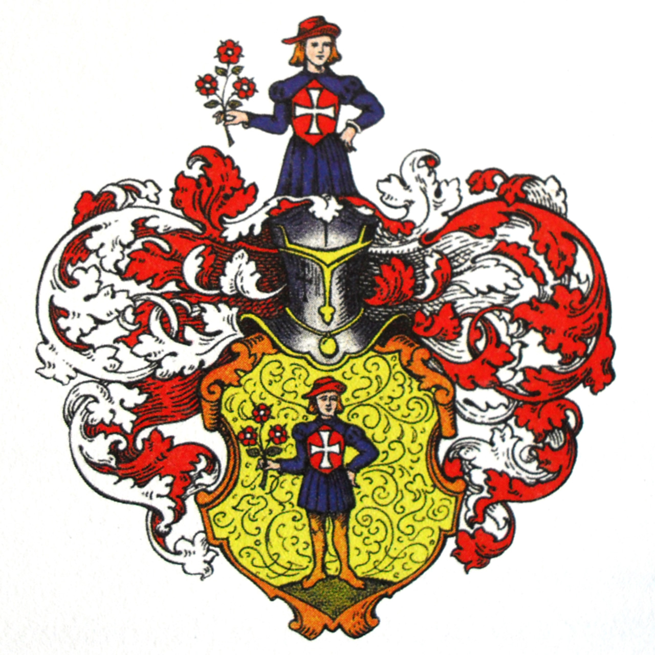 Coats of arms of the Merck family (Darmstadt)